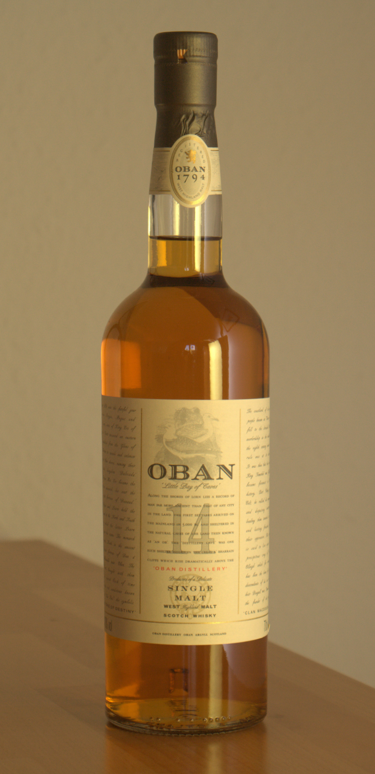 A bottle of Oban 14 years old whisky